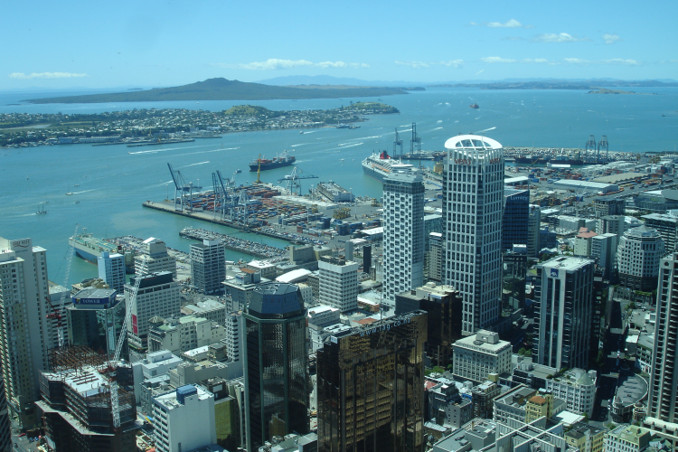 Auckland City seen from the Sky Tower, looking north-eastward. Photographed by Alex Bond.